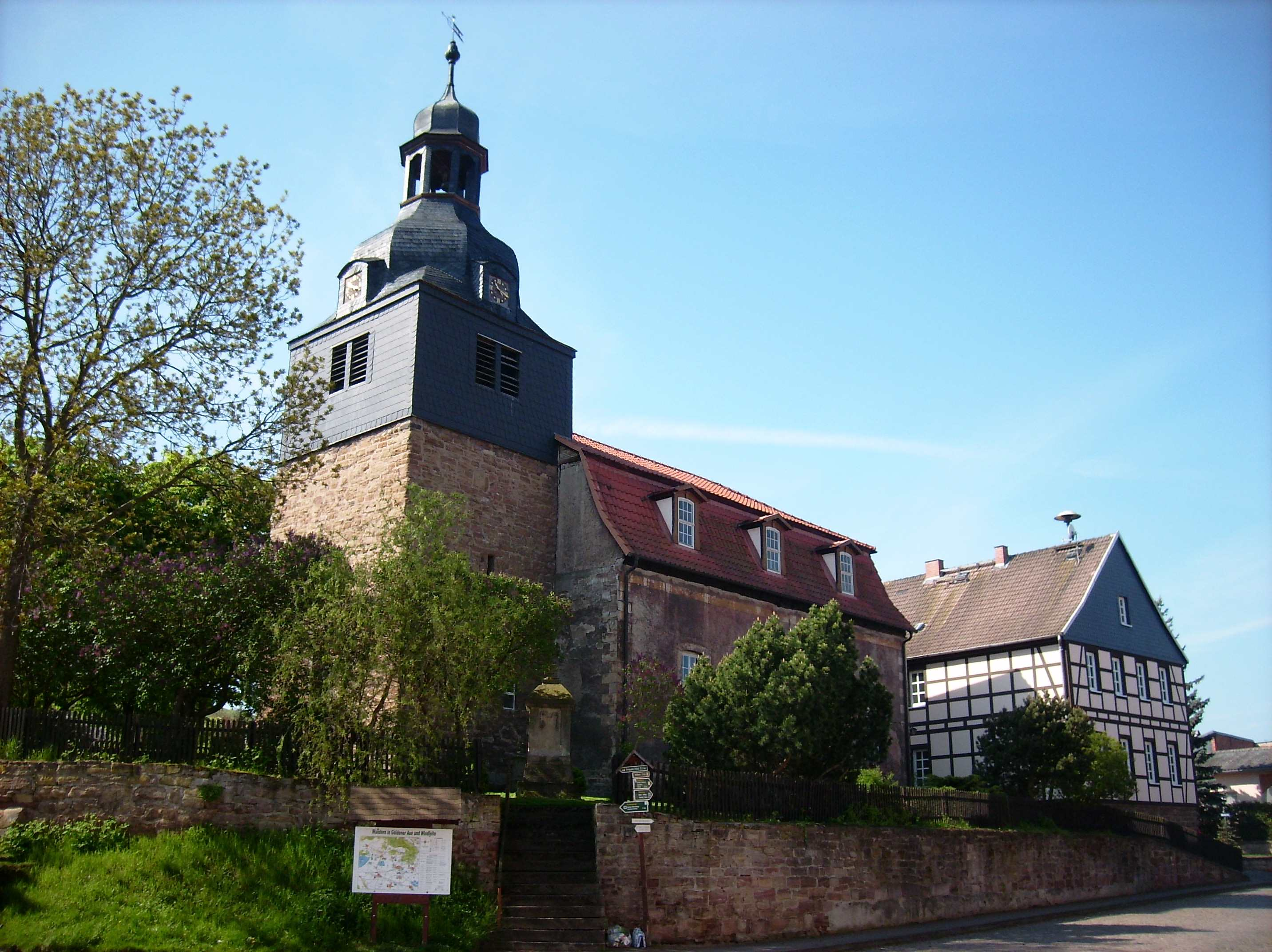 Church of the village of Hamma (Heringen/Helme, Nordhausen district, Thuringia)